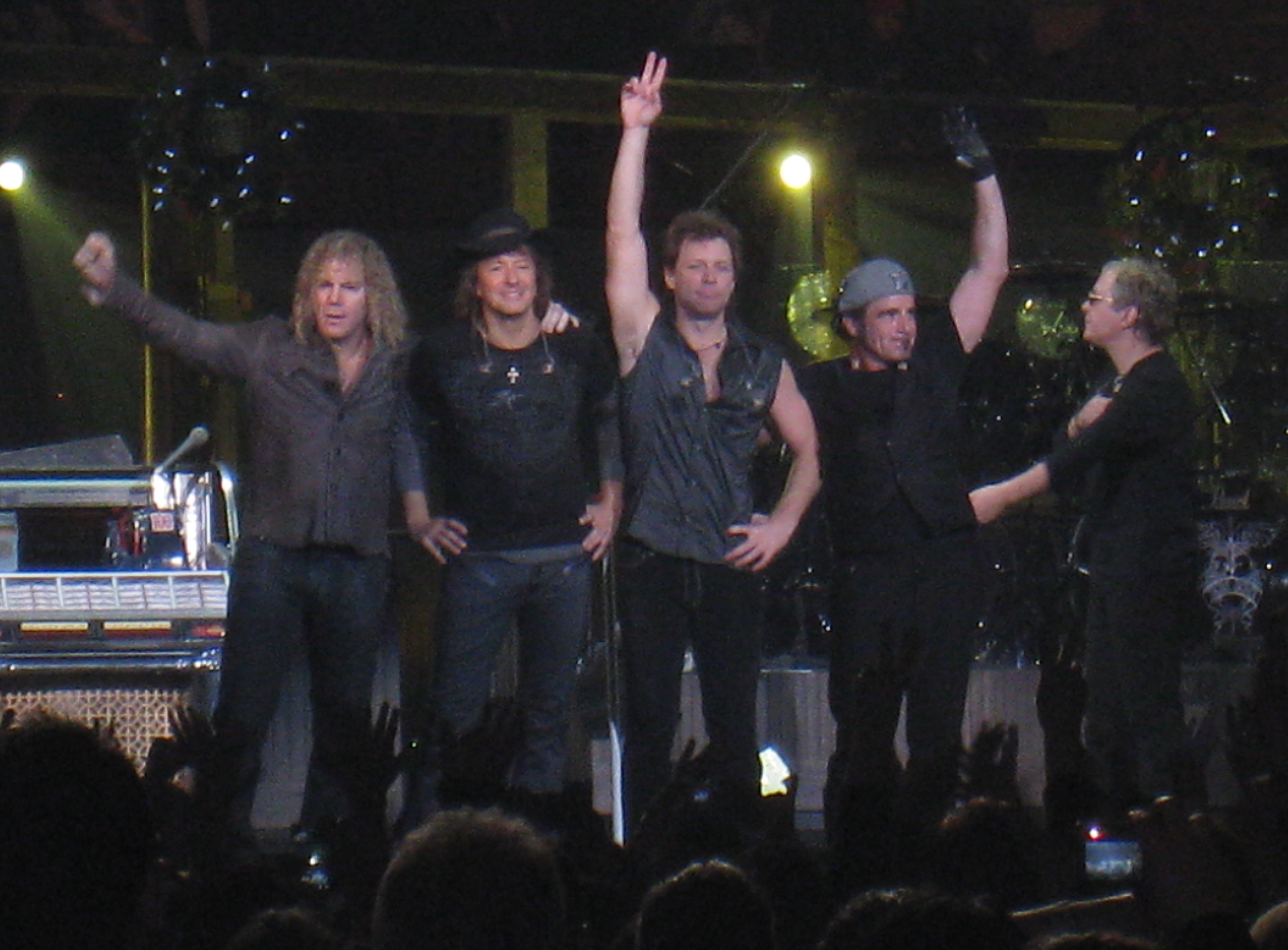 Bon Jovi in 2007.